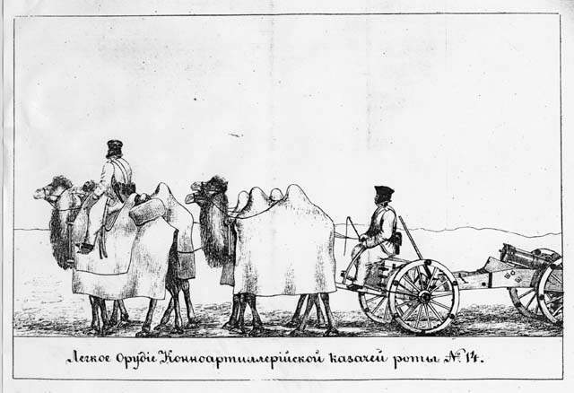 Cossaks in Hiva 1839